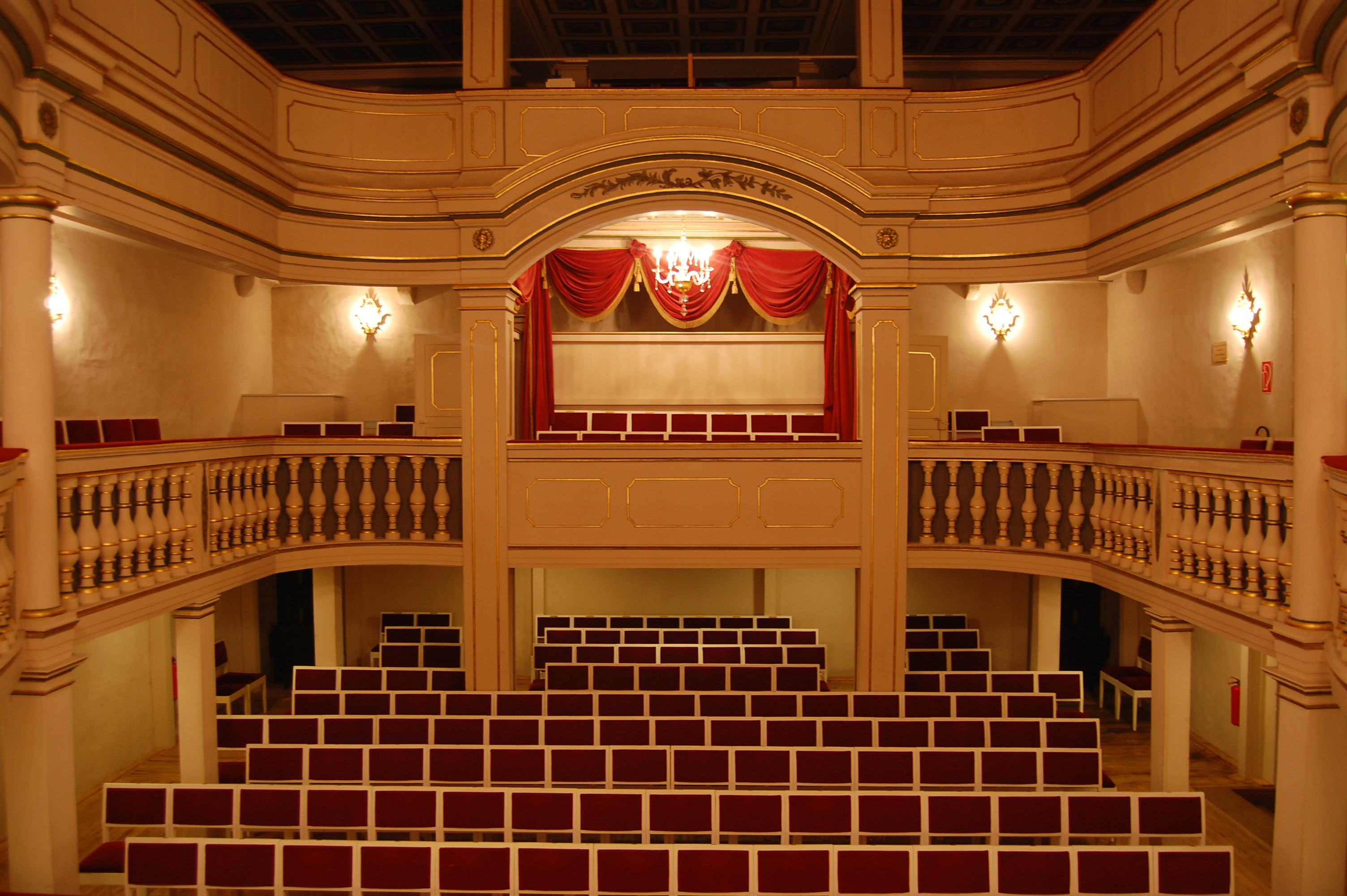 Ekhof-Theatre Auditorium